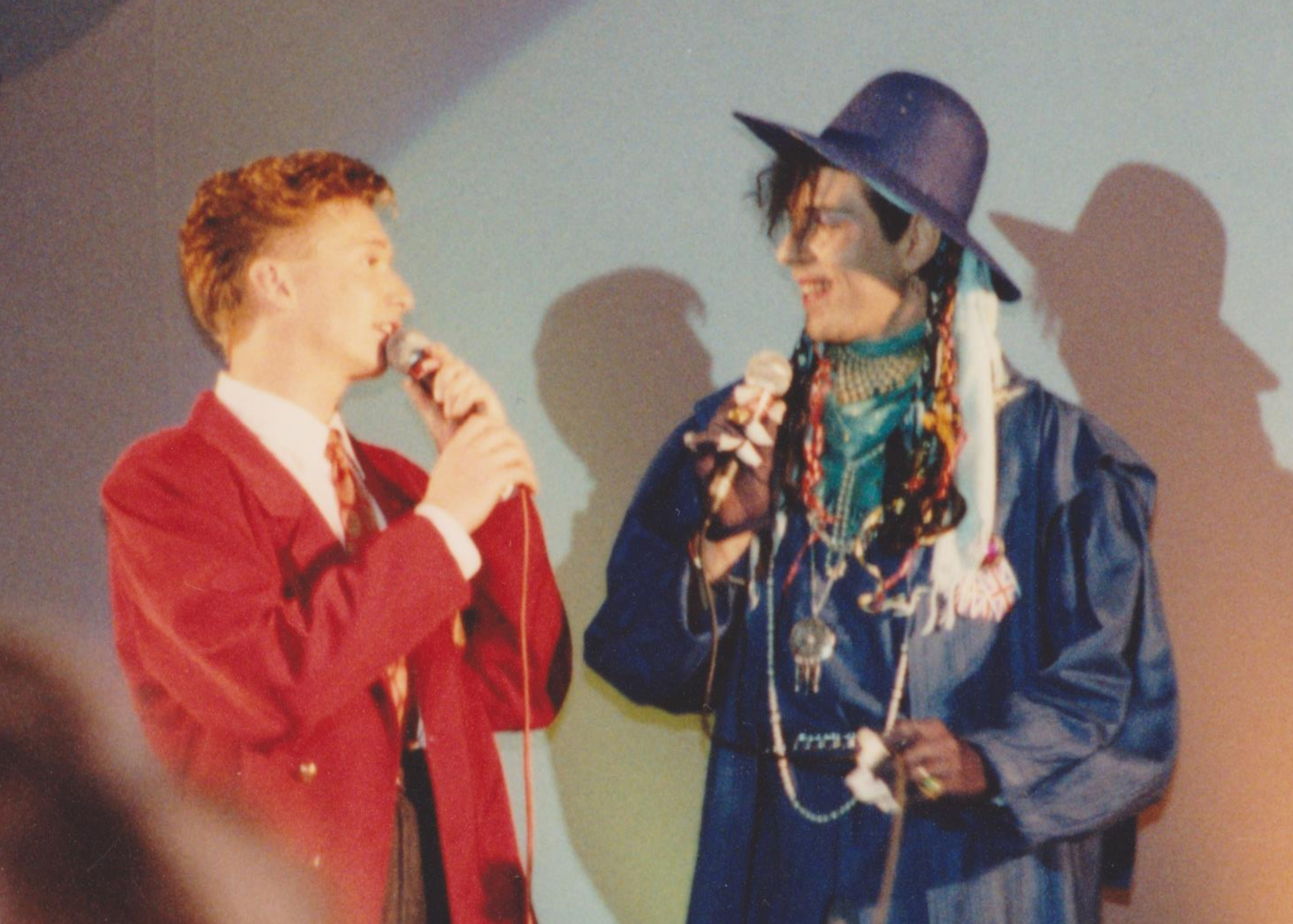 Patrick Knight took part in VTM (TV channel) Soundmixshow hosted by Bart Kaëll, winning 3th place as Boy George. It wasn't broadcasted on television. Own made photo taken by Patrick's dad (Thomas C. Knight, † 27.03.2018) with our own camera.